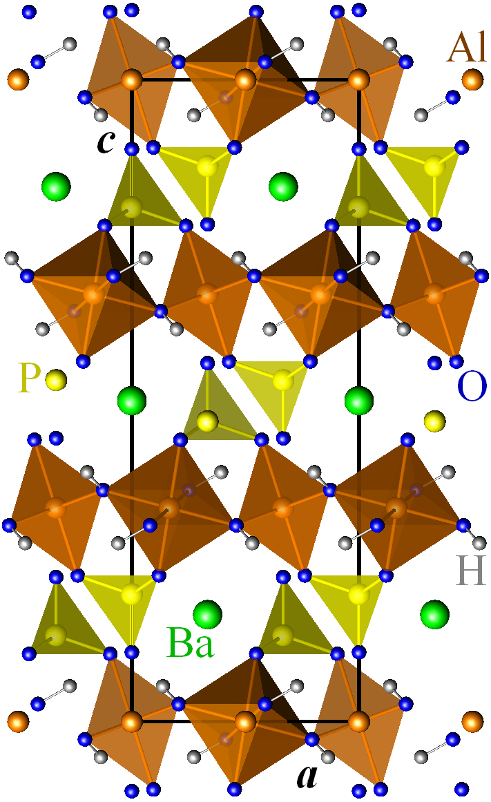 Crystal structure of gorceixite, BaAl3(PO4)(PO3OH)(OH)6, space group R-3m, projected along the b direction (hexagonal cell setting). Reference: Dzikowski T.J., Groat L.A. & Jambor J.L. (2006) "The symmetry and crystal structure of gorceixite, BaAl3[PO3(O,OH)]2(OH)6, a member of the alunite supergroup", The Canadian Mineralogist, 44: 951-958.